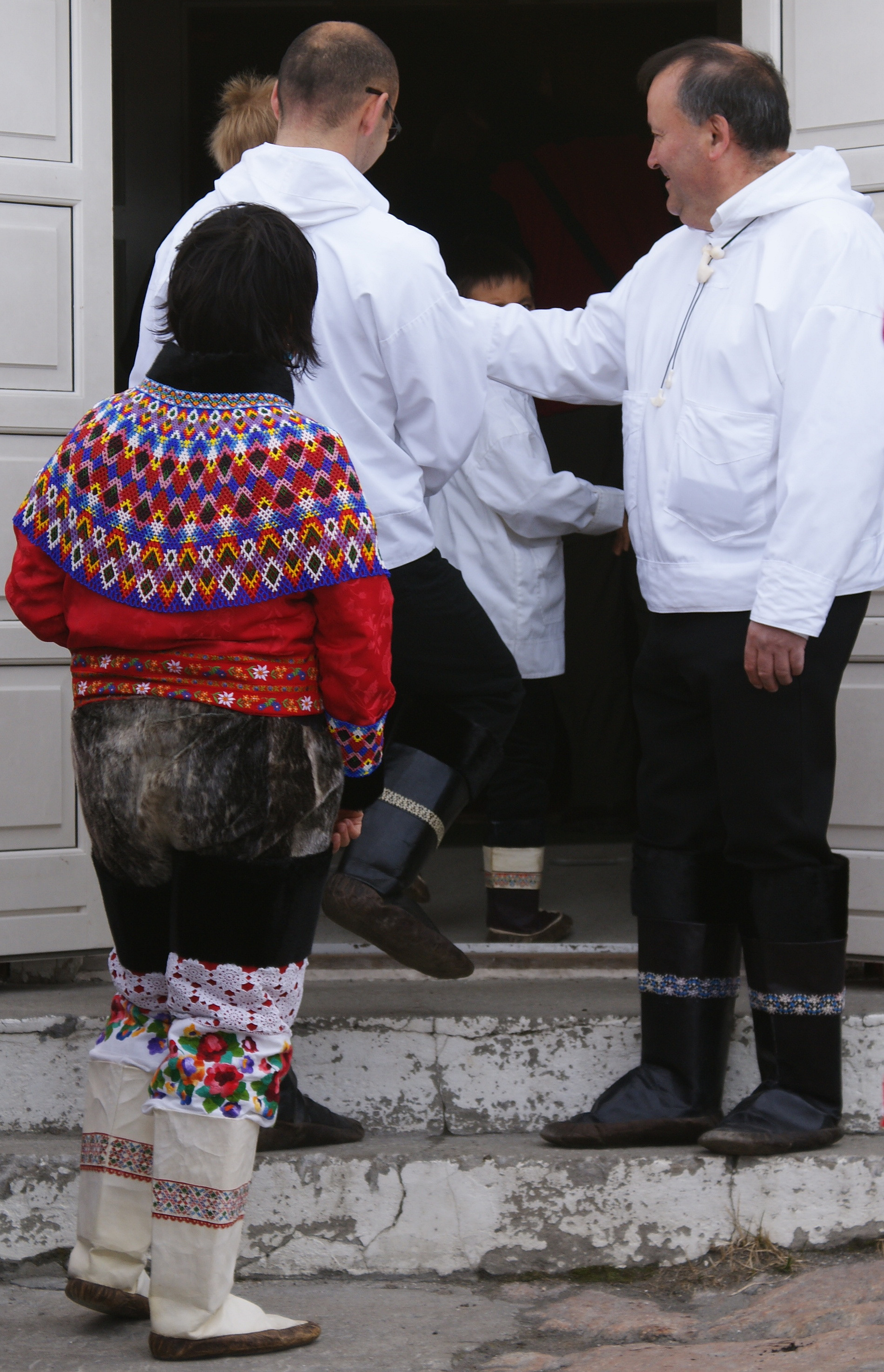 Hermann Berthelsen, the mayor of Sisimiut, Greenland, personally welcomes city folk into the church during Greenland's National Day celebrations on the 21st of June 2010, the first anniversary of the Self Rule. Both the mayor and the people are wearing national costumes for this occasion, the traditional, ceremonial Inuit clothing.